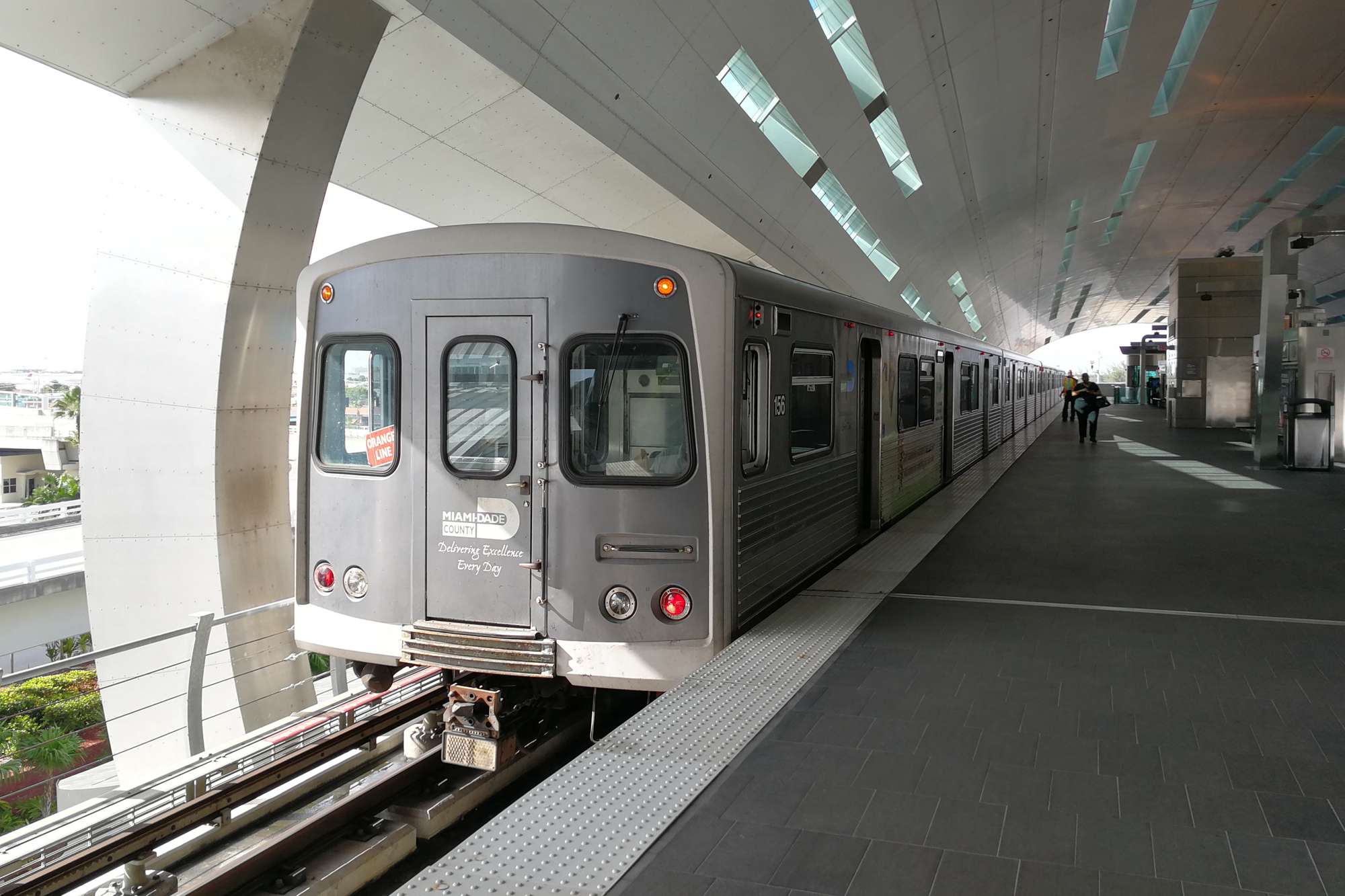 A Metrorail train in the Miami International Airport Station